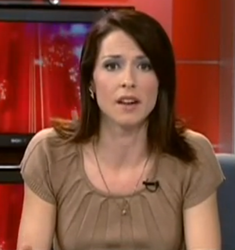 Not identified in the clip, but the voice is familiar to regular watchers of RT as that of Abby Martin. Cropped from the clip shown on Youtube.